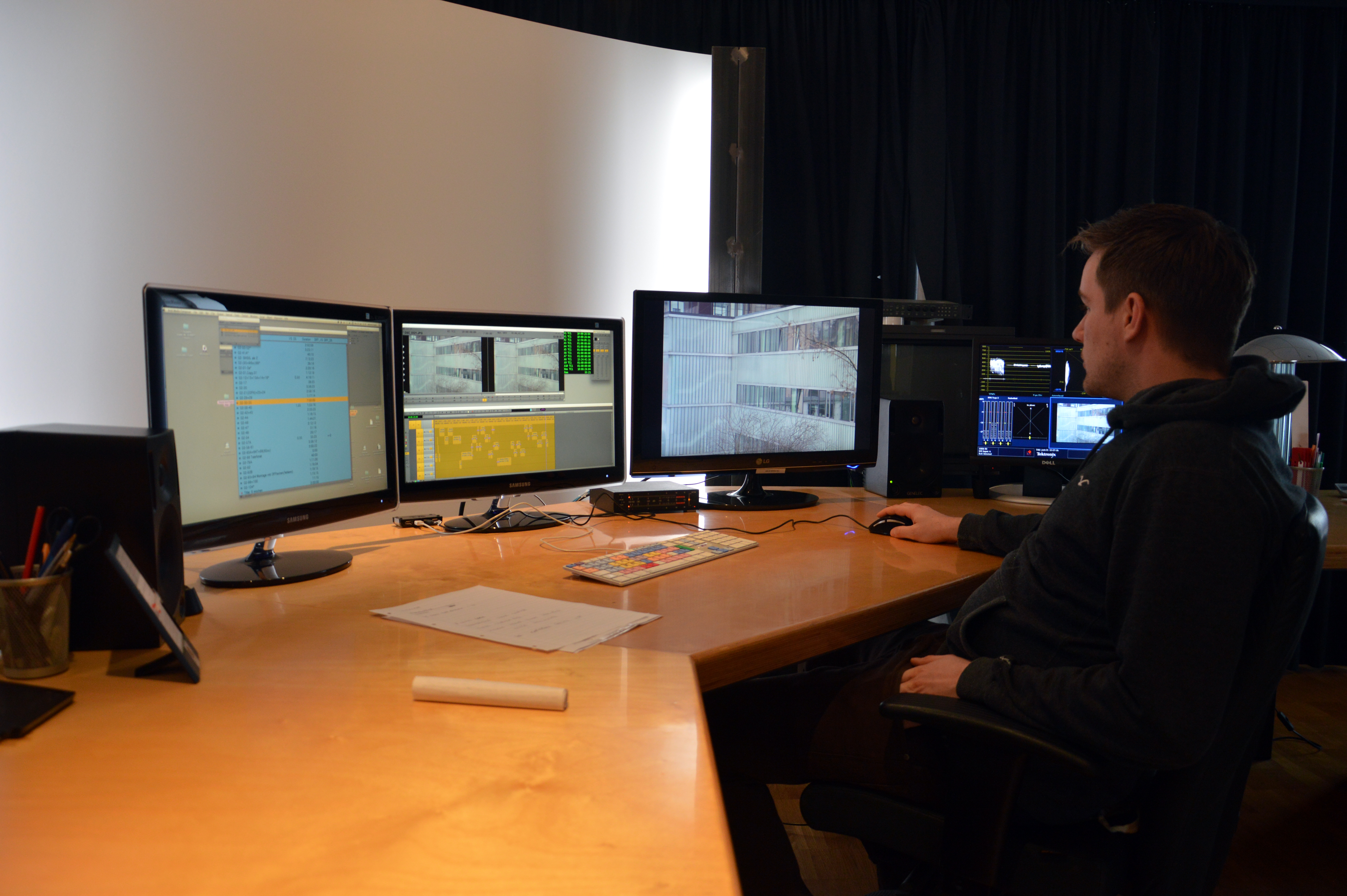 Film editor Max Mittelbach working in a digital editing suite at the company "Optical Art" in Hamburg, Germany. Photographed by Klaus Eichler